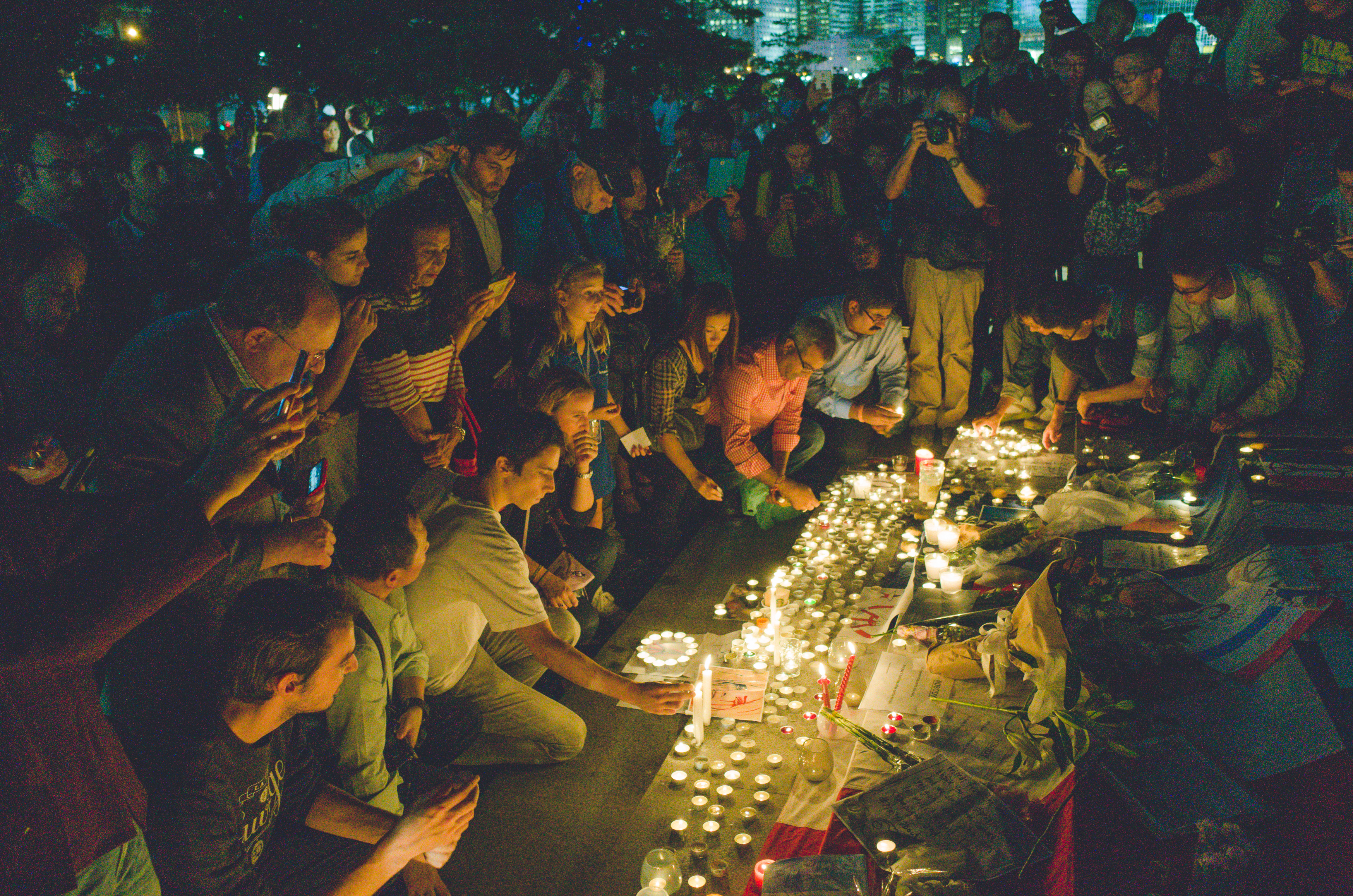 Pray for Paris, Hong Kong 16 November 2015.